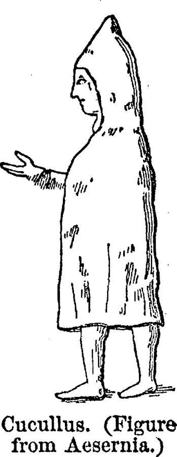 A roman cucullus.